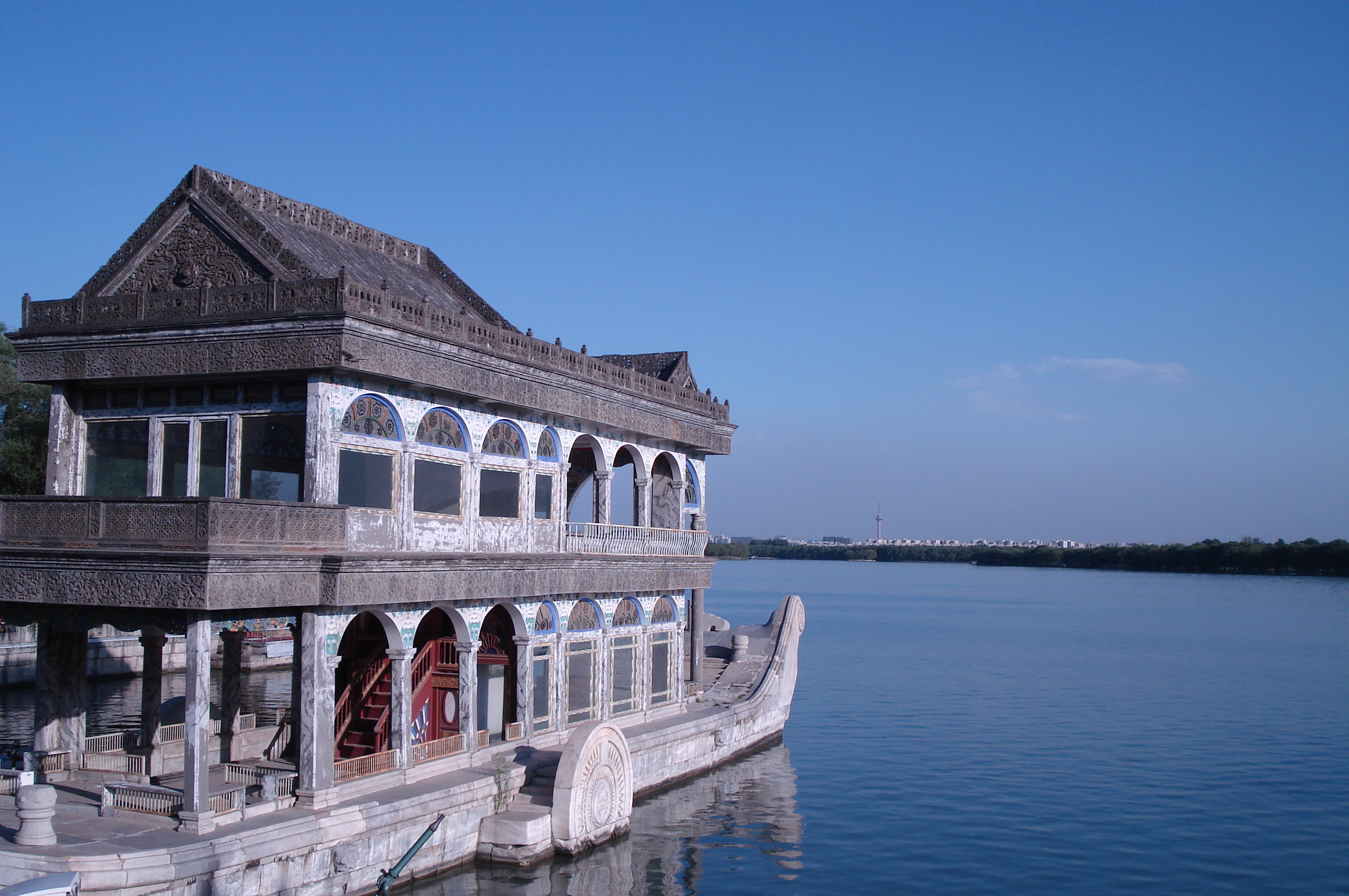 Marble Boat in Summer Palace